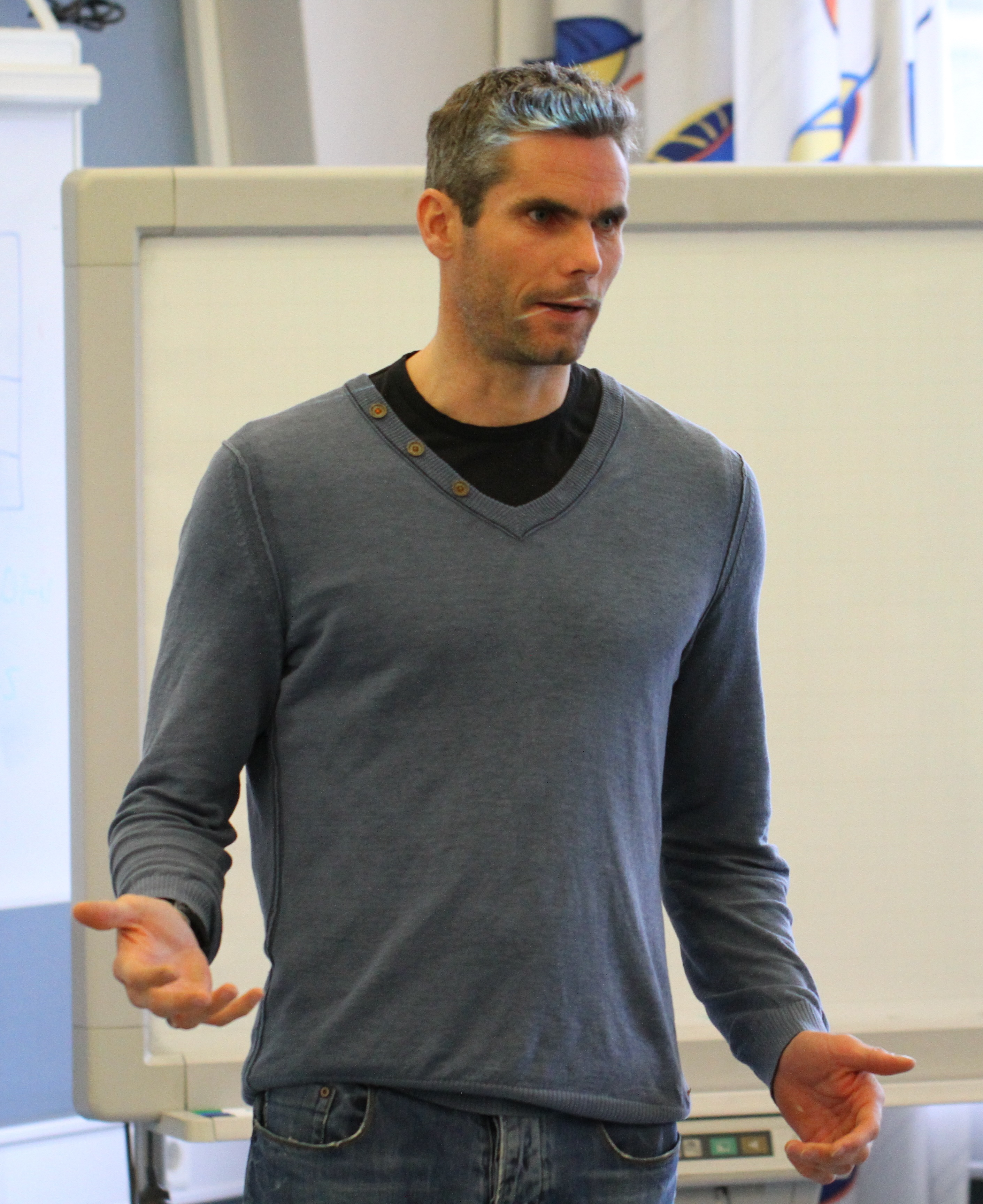 Former olympic champion Thomas Alsgaard in Mosjøen, Norway.